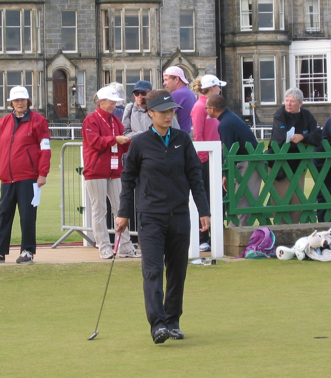 Grace Park at 2007 Womens British Open at St. Andrews